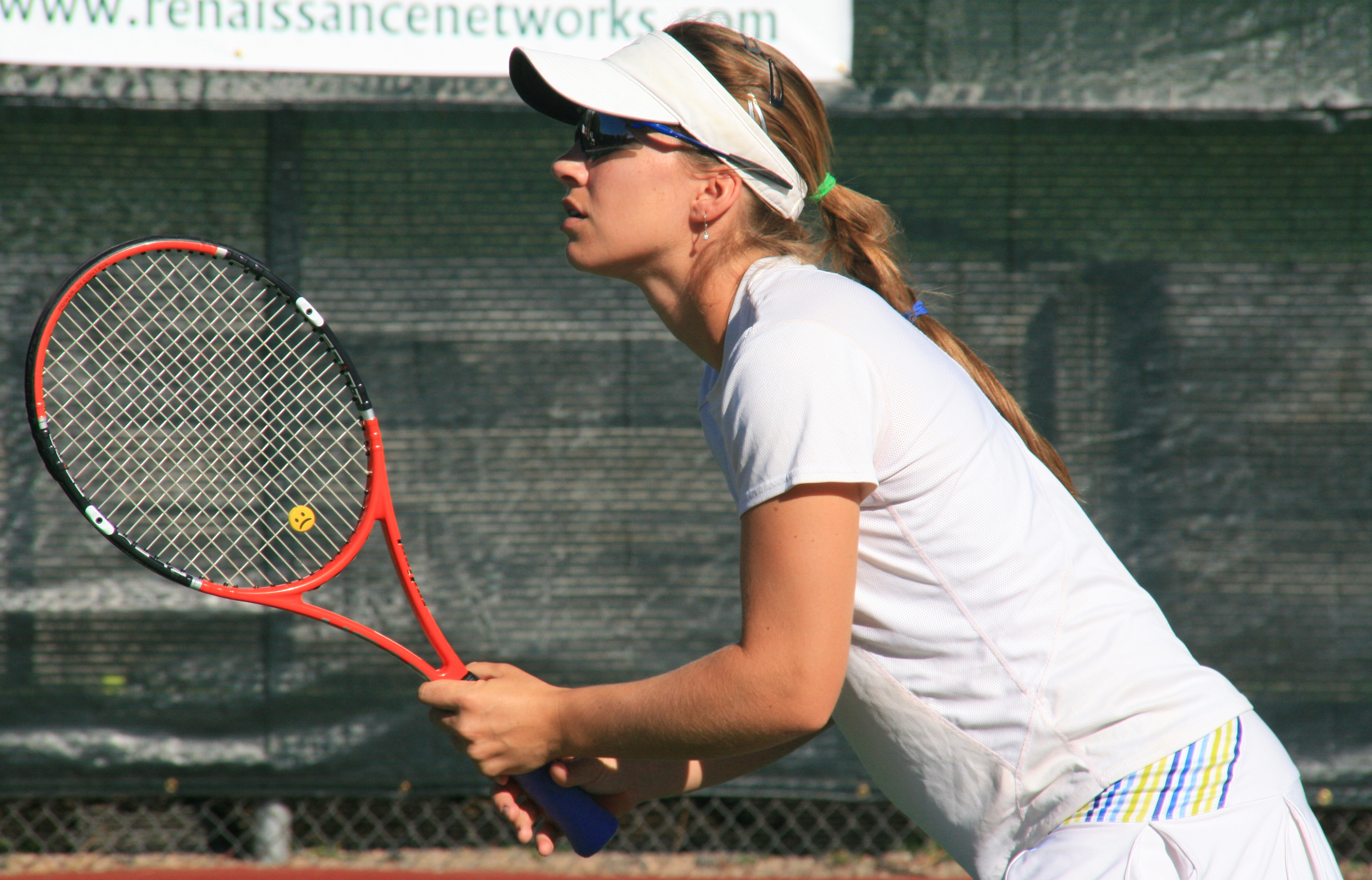 Story Tweedie-Yates at the Coleman Vision Tennis Championship in Albuquerque, New Mexico.